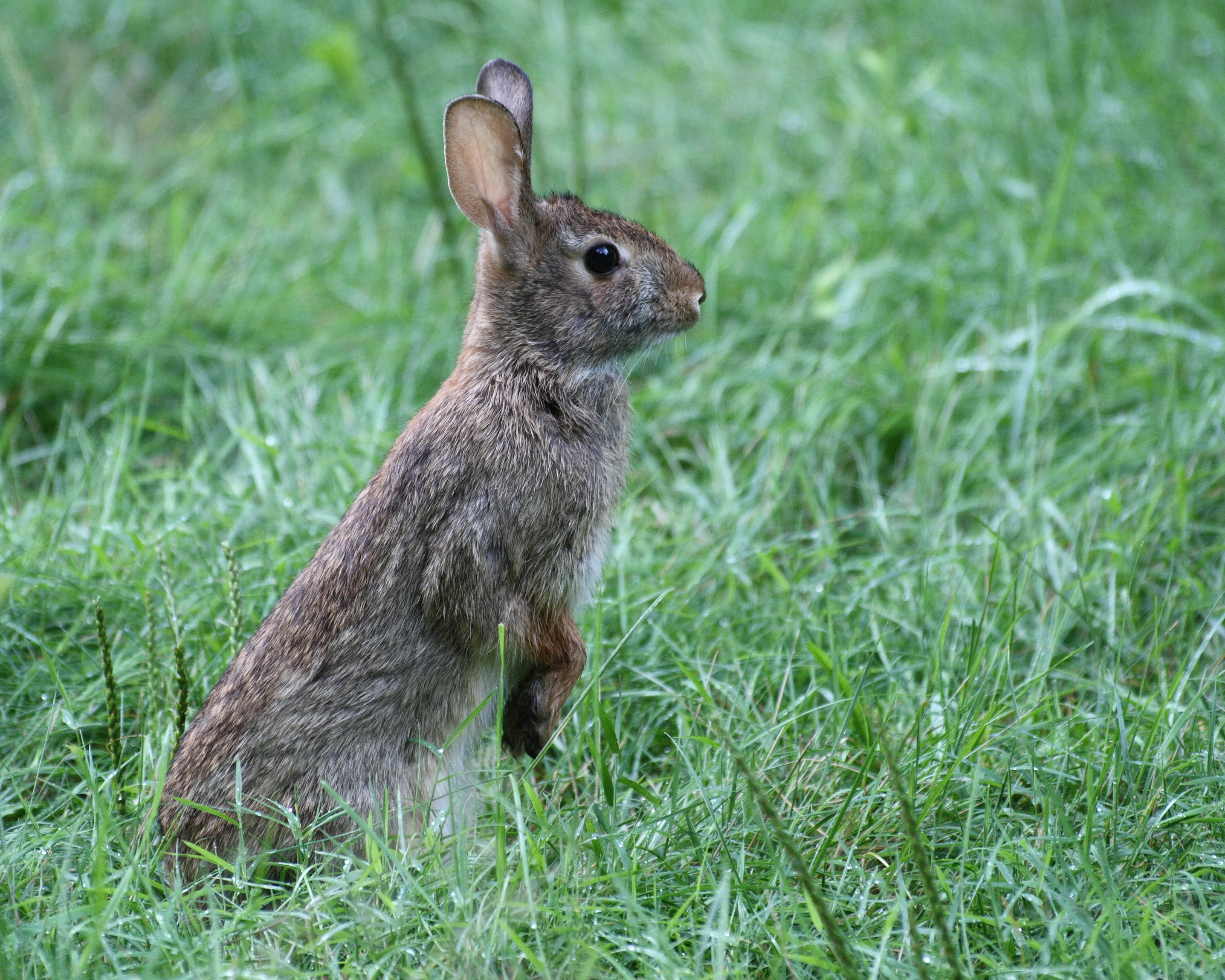 A rabbit, presumably an Easter Cottontail (Sylvilagus floridanus), in suburban West Hartford, Connecticut